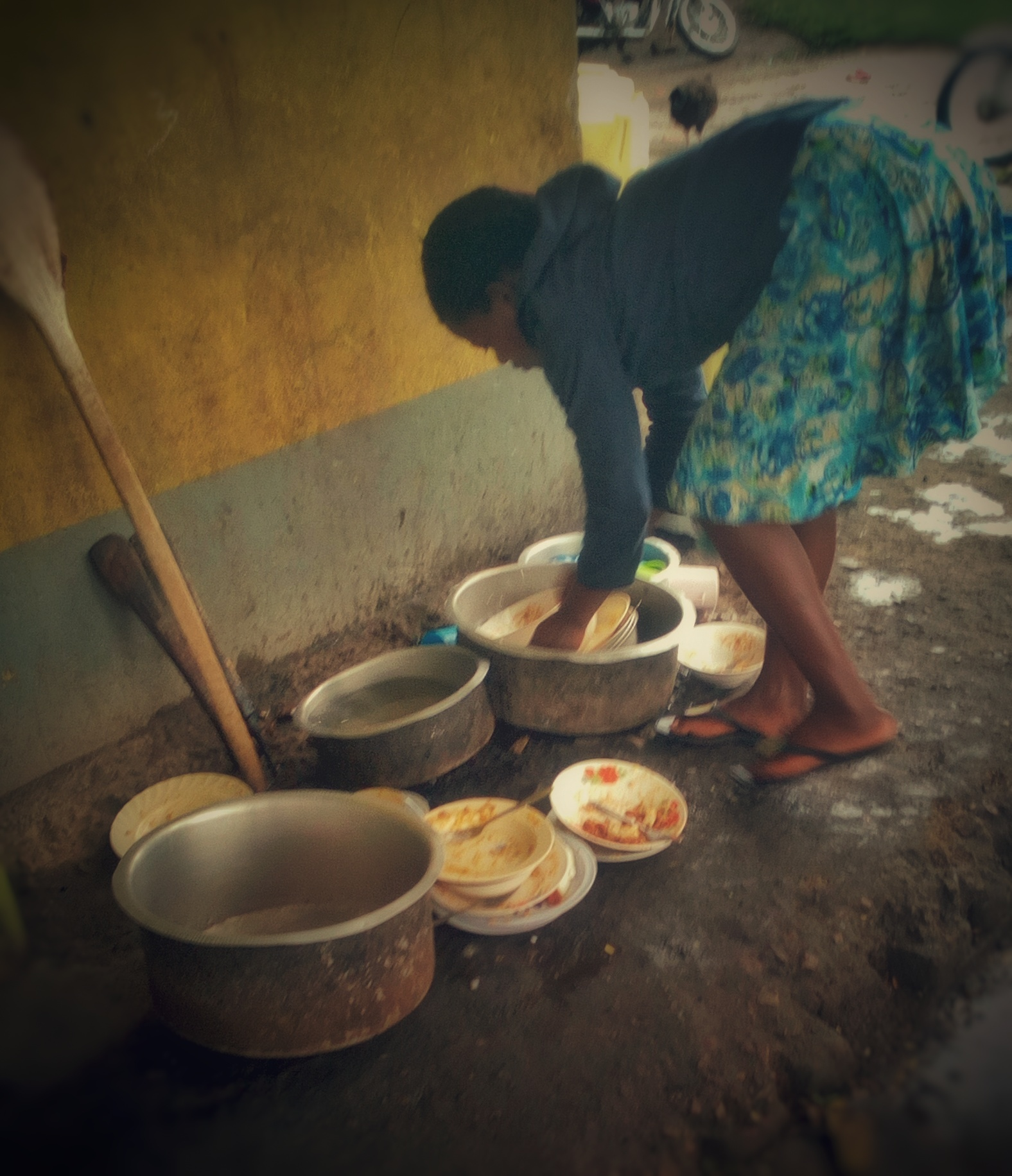 A woman washing plates for a small local restaurant. This is an image of "African people at work" from Uganda